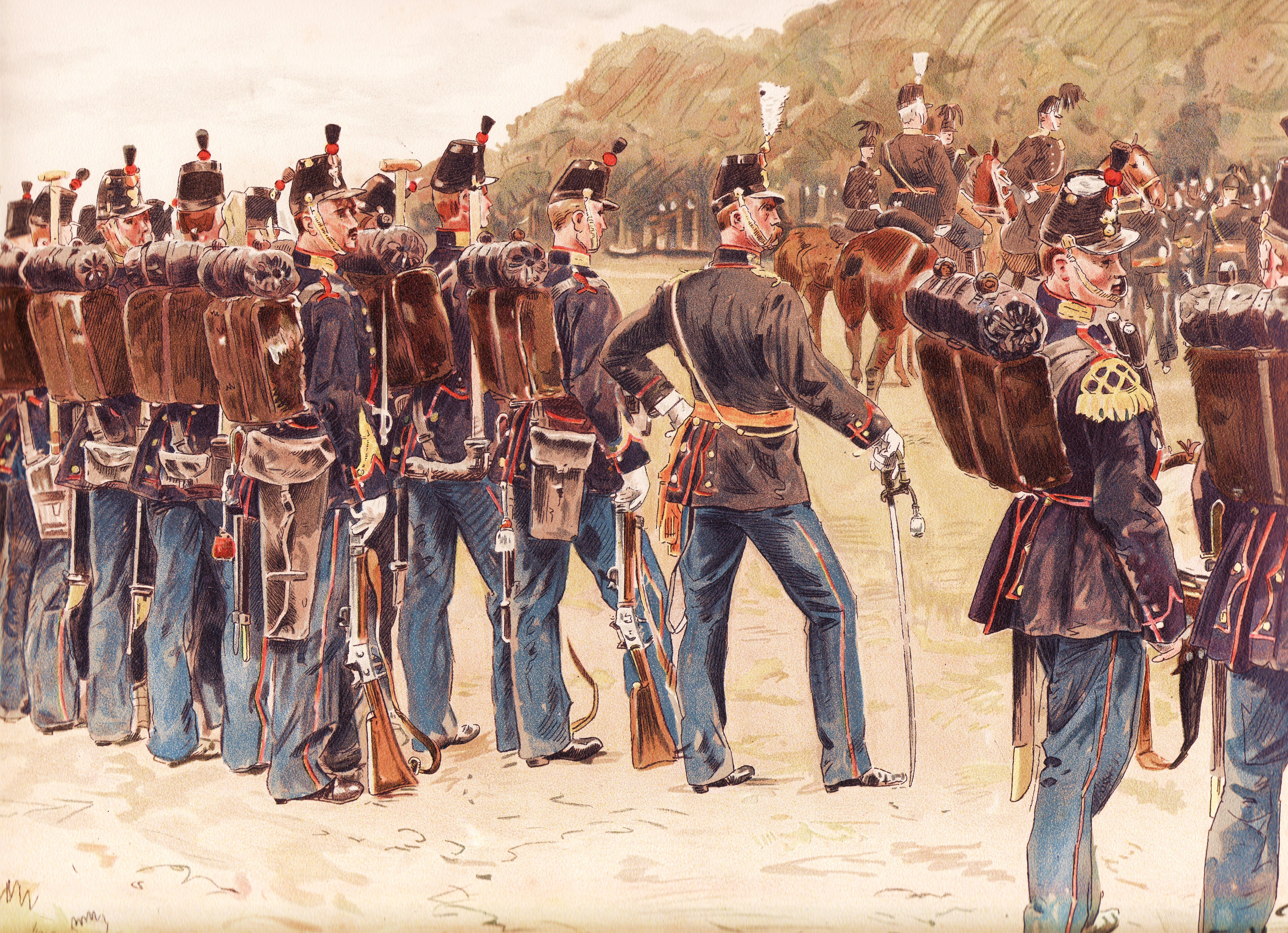 Genietroepen